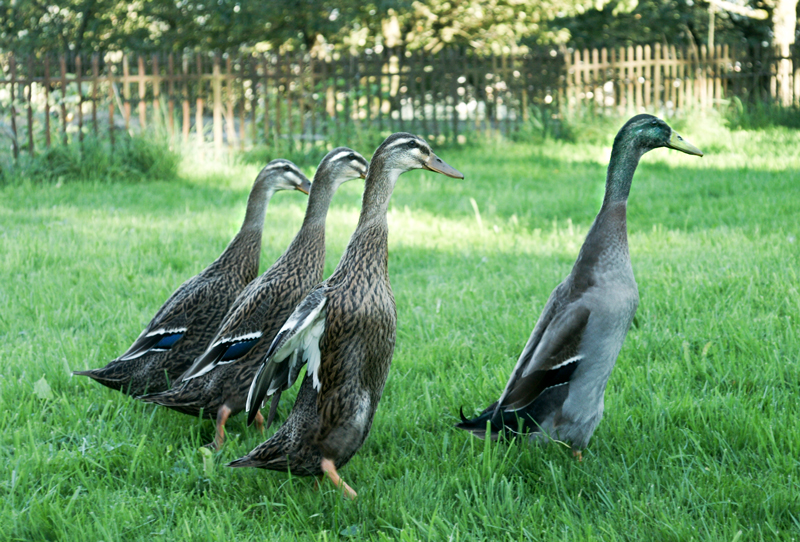 Indian Runner Duck